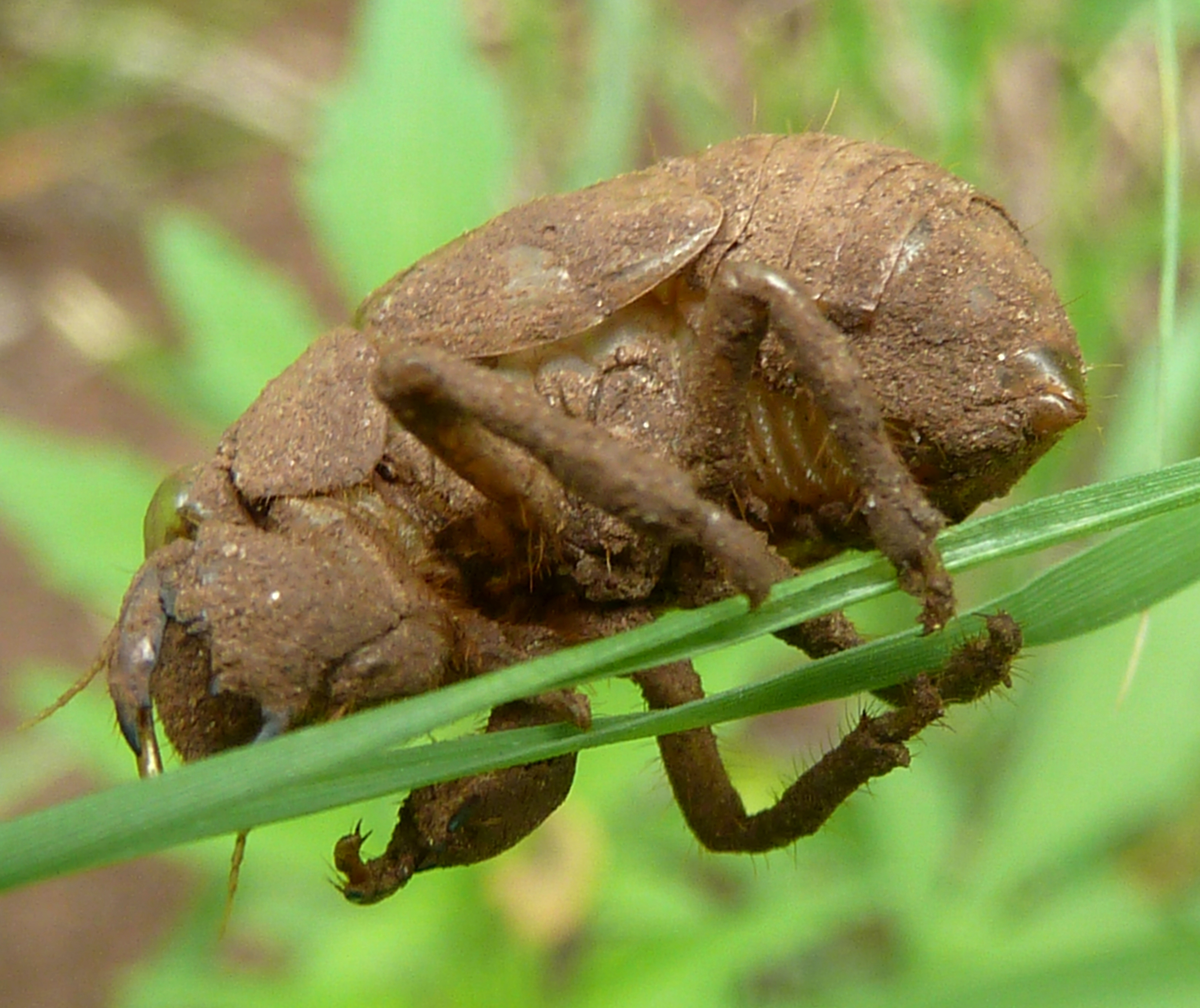 Nymphal exuvium of an Orange-winged cicada, P. haglundi, at Skeerpoort on the southern slope of the Magaliesberg, South Africa. Acacia ataxacatha grows nearby, on which it possibly fed.